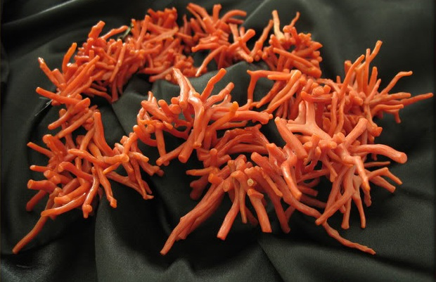 Precious coral Algerian Skikda region.